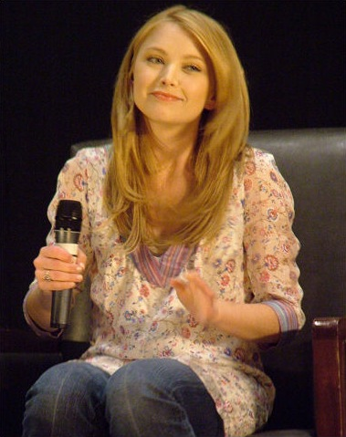 Elisabeth Harnois during a Charmed/Point Pleasant interview at The Witching Hour in July 2006.